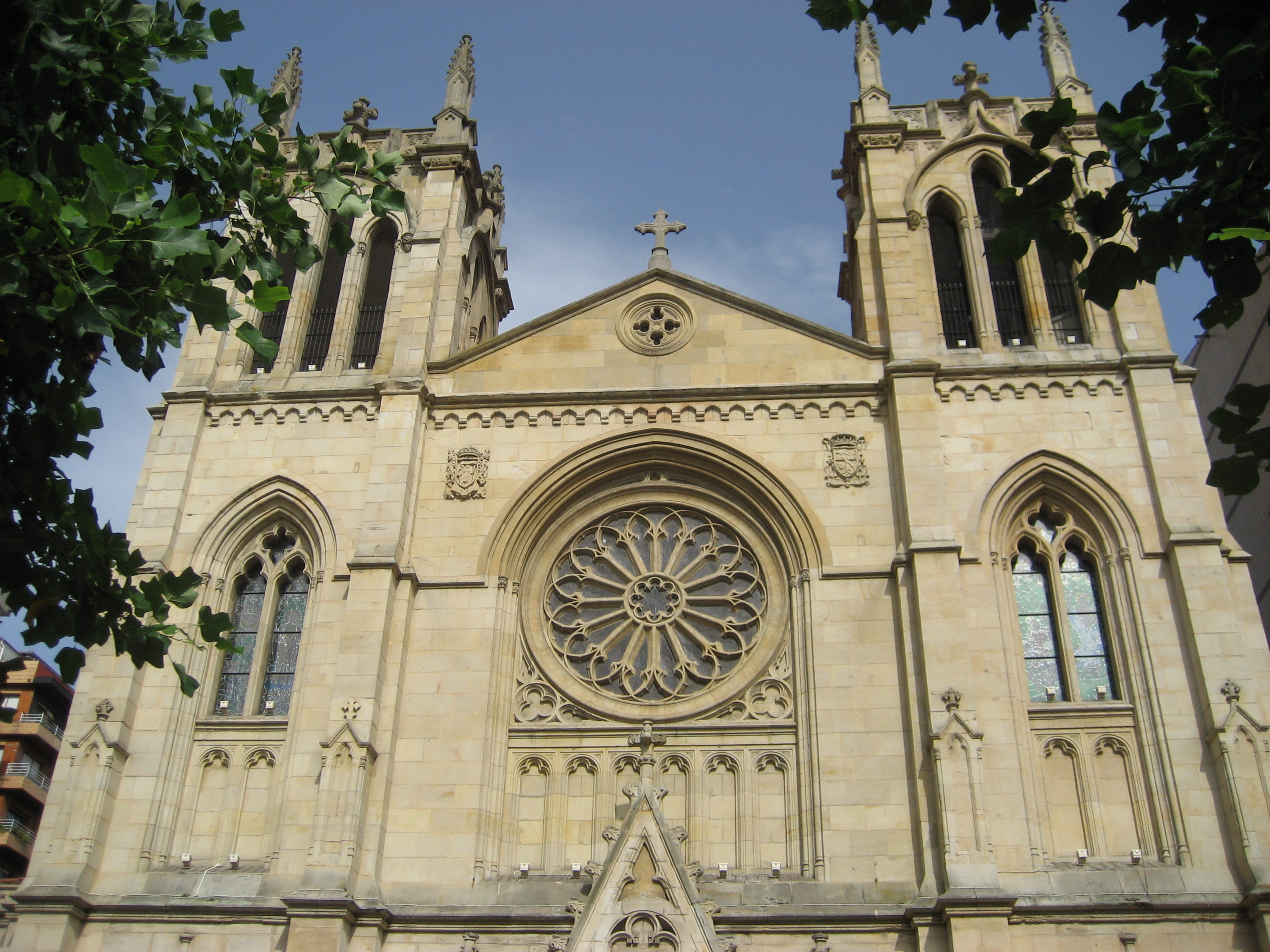 Upper front view of San Lorenzo church, Gijón, ES